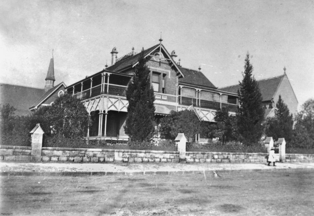 Rectory belonging to the Holy Trinity Anglican Church in Fortitude Valley taken about 1910